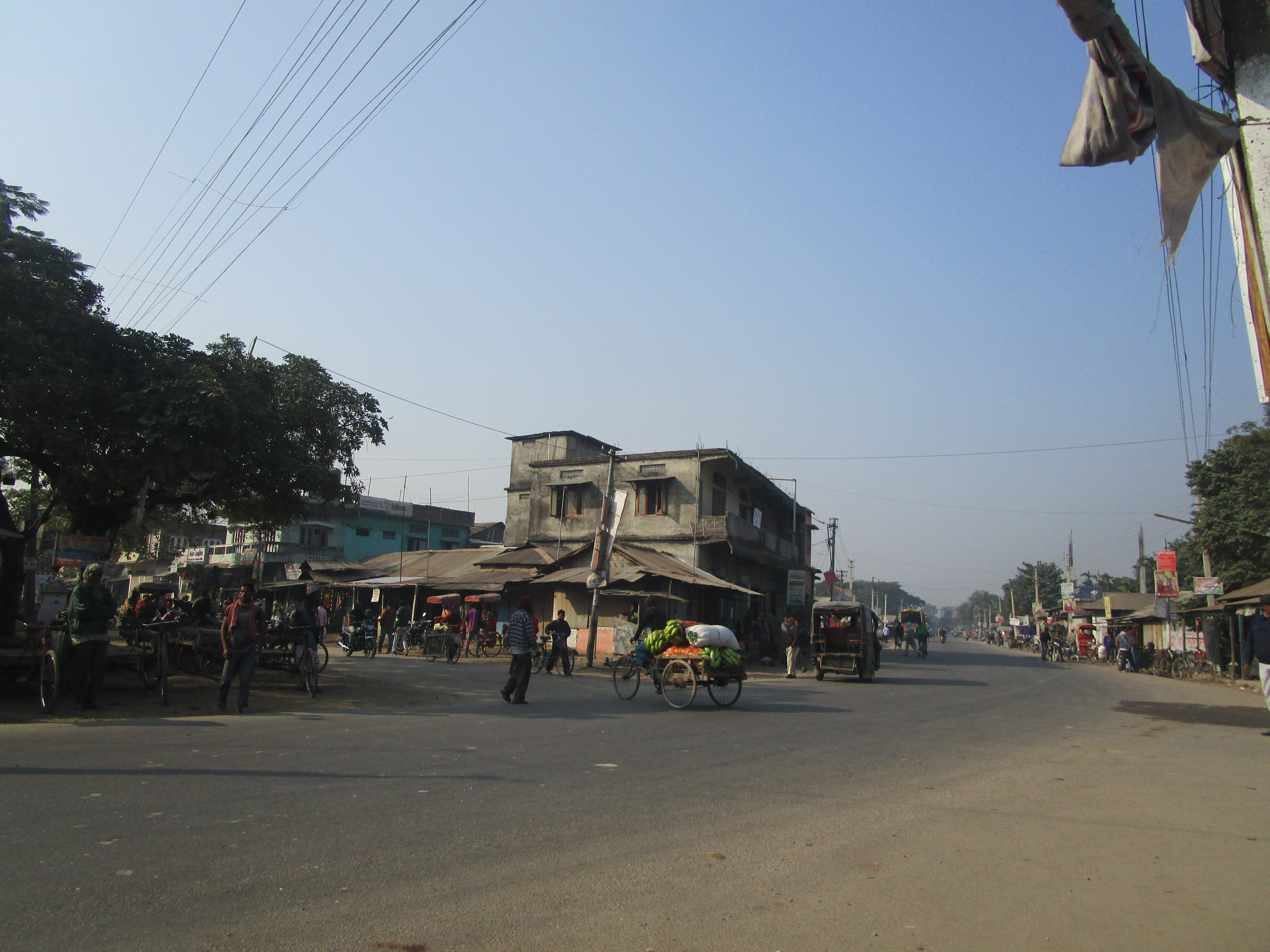 Chourange More, Station Road, Gouripur, Dhubri, Asam, India.